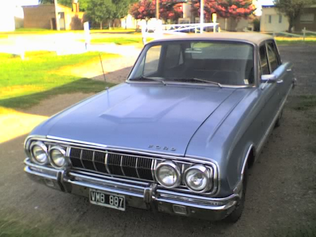 Argentinas Ford Falcon third restyling in 1970 represented a significant departure from the first generation US Ford Falcon models in terms of exterior styling.